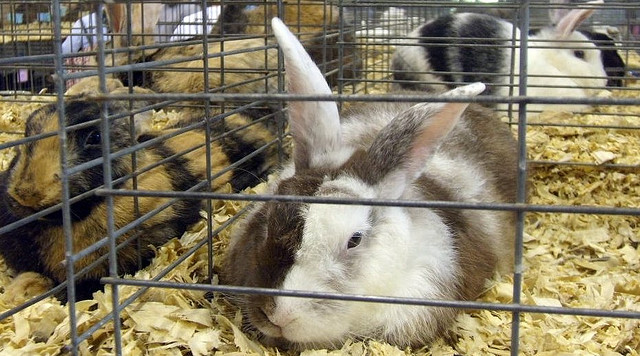 Harlequin rabbits at a show